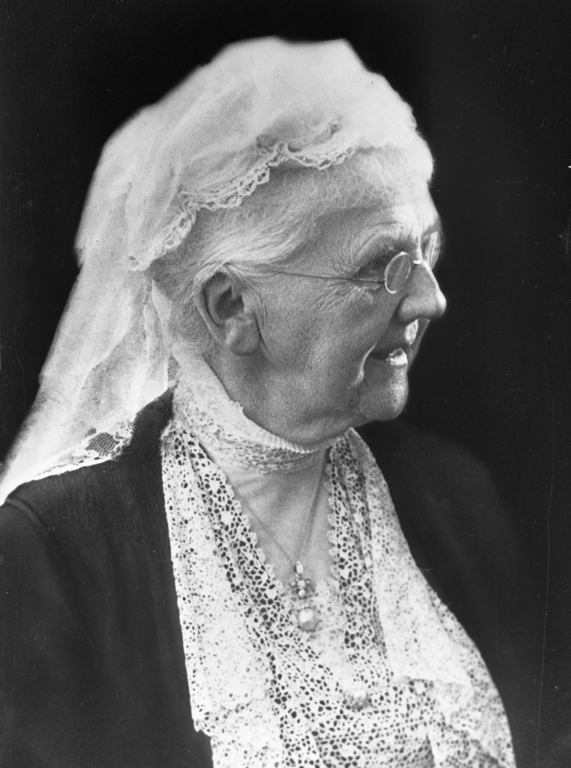 Emma of Waldeck and Pyrmont